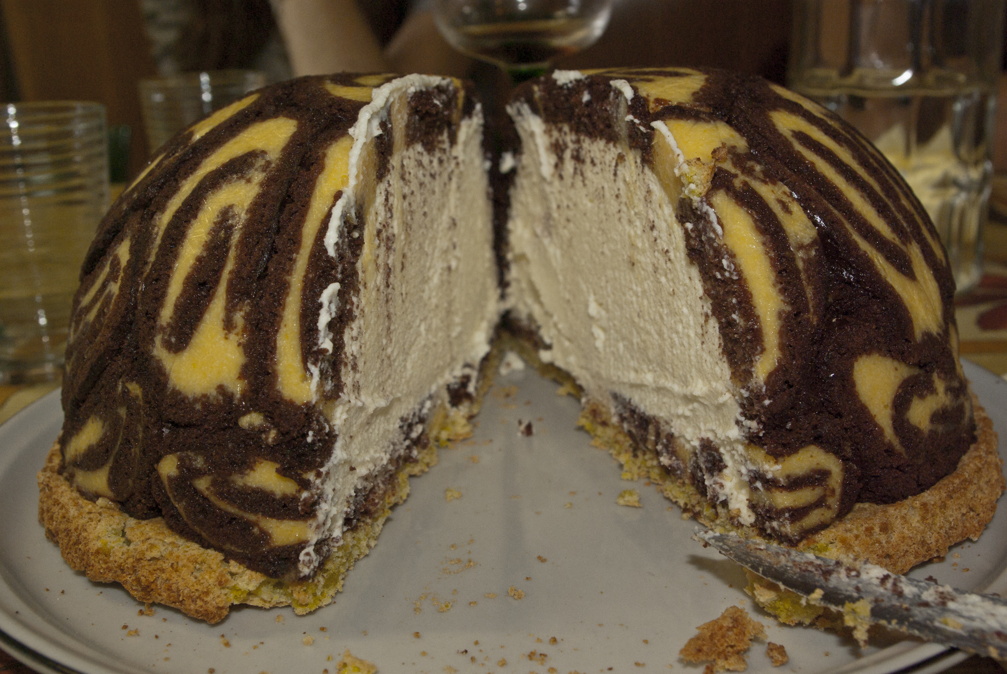 Profile of cut white cholocate zuccotto and pistacchio daquoise.